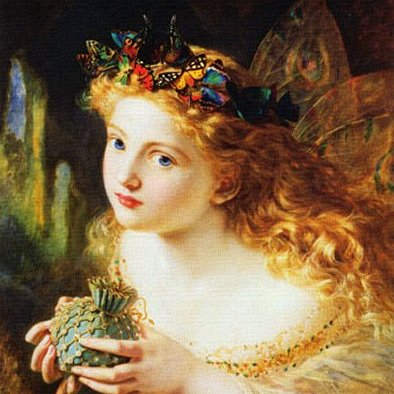 Take the Fair Face of Woman…, square format